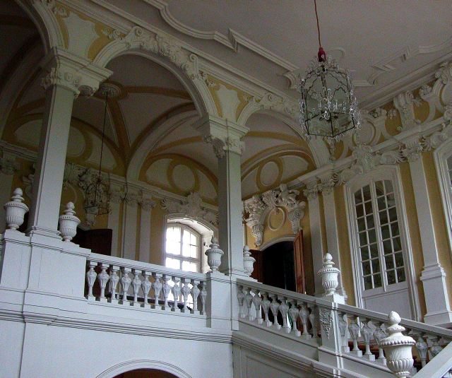 Pilsrundāle, Latvia: Staircase.